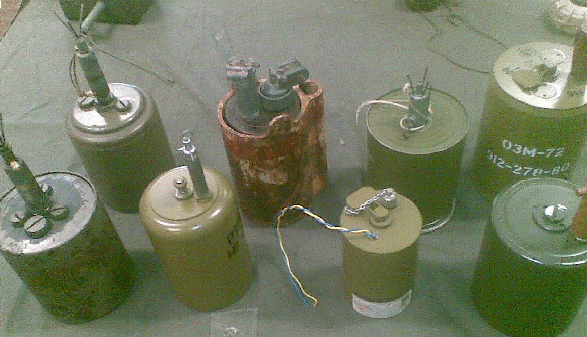 Various models of bouncing mines. Top row from left: PP-Mi-Šr, Mk II, M16 and OZM-72. Bottom row from left: S-Mine 35, OZM-4, OZM-3 and Schützenabwehrverlegemine DM 31.